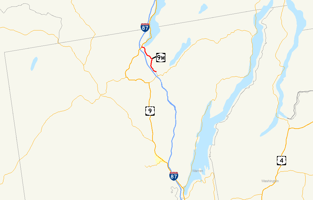 Map of New York State Route 9M